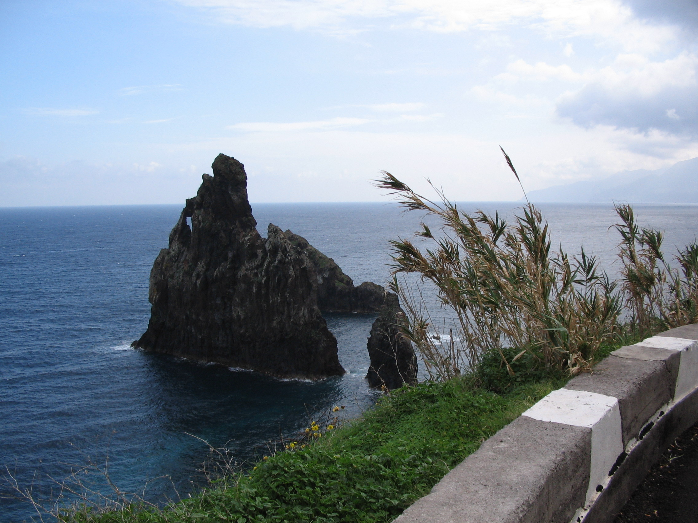 Two rock formations - Ilheus da Rib and Ilheeus da Janela on the north coast ofMadeira island near of town Porto Moniz